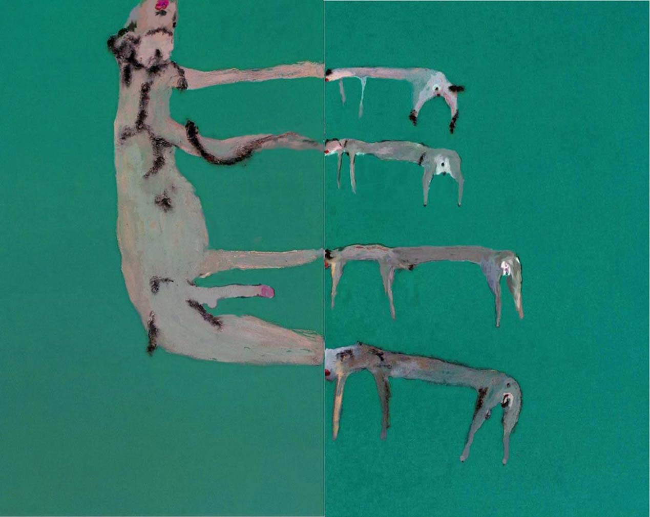 Andrew Litten, Dog Breeder 2007, Anti Art, Dada, Vyner Street, London, Dogs On Heat, Copulate, Paint with Pubic Hair